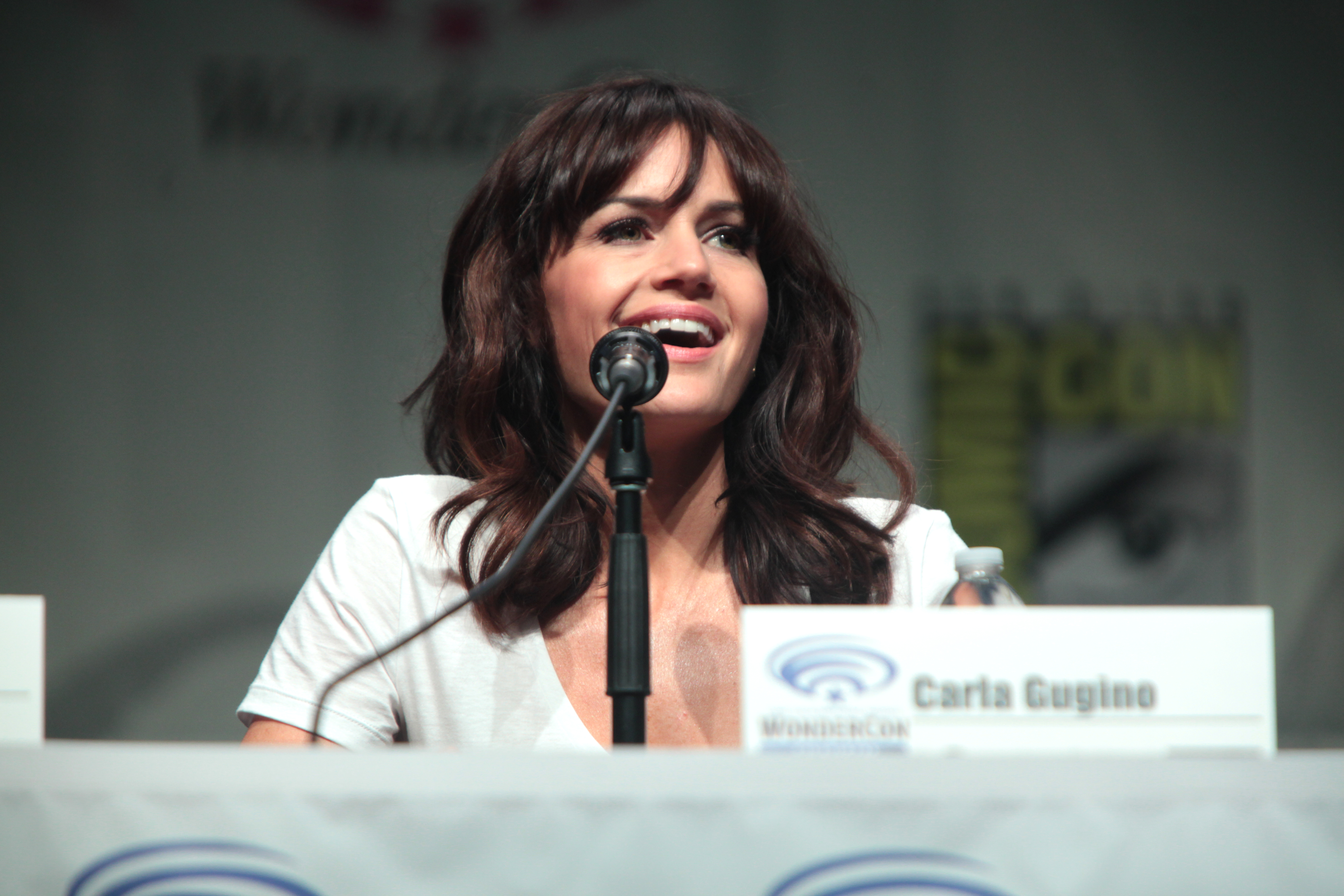 Carla Gugino speaking at the 2015 Wondercon, for "San Andreas", at the Anaheim Convention Center in Anaheim, California.